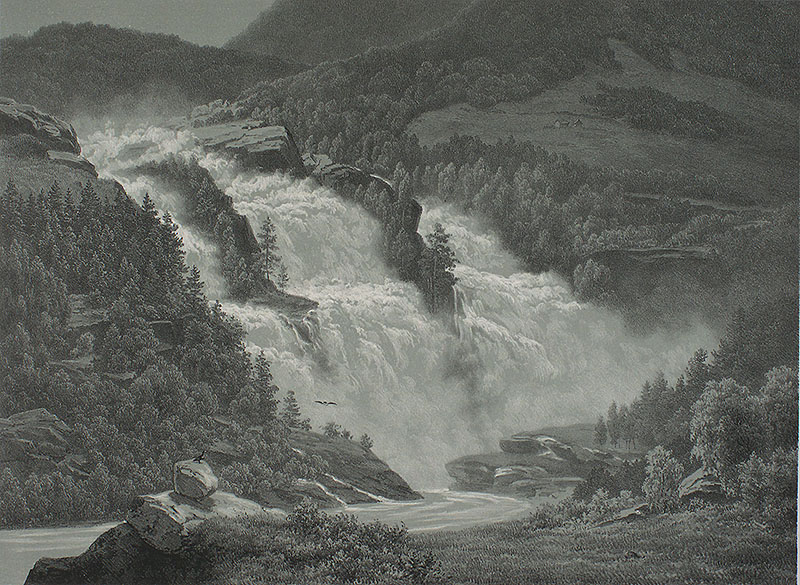 Picture from the work "Norge fremstillet i Tegninger" from 1848 by Christian Tønsberg. The picture depicts Vermedalsfossen in Romsdalen, Norway.